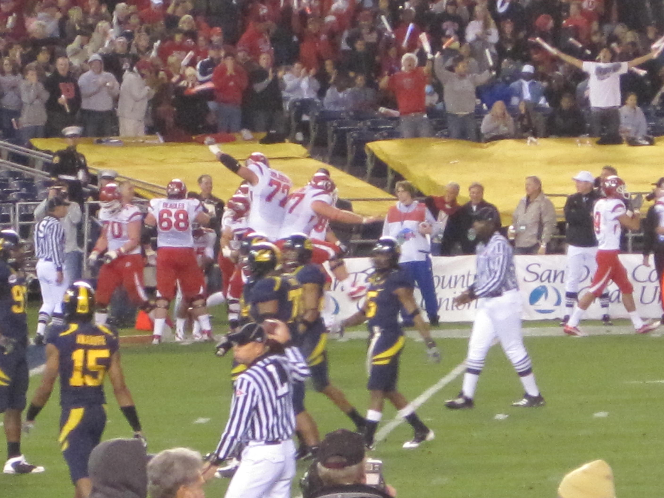 Utah wide receiver Jereme Brooks scores a touchdown during the 2009 Poinsettia Bowl between the Utah Utes and the California Golden Bears. The Utes won 37-27.